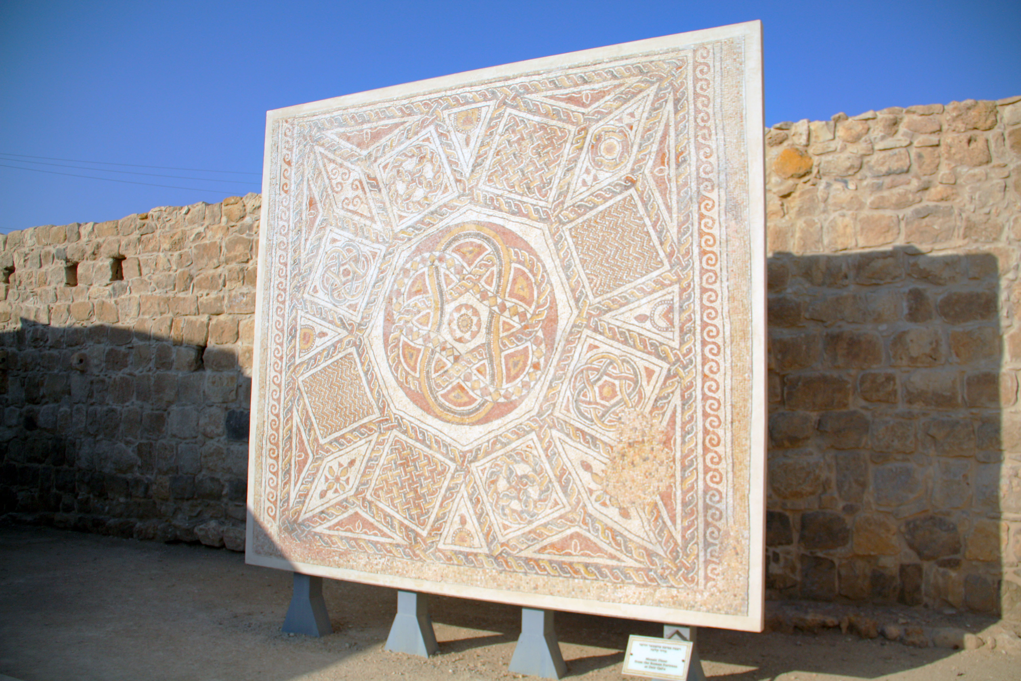 Mosaic of Dir Qliea, Good Samaritan Inn